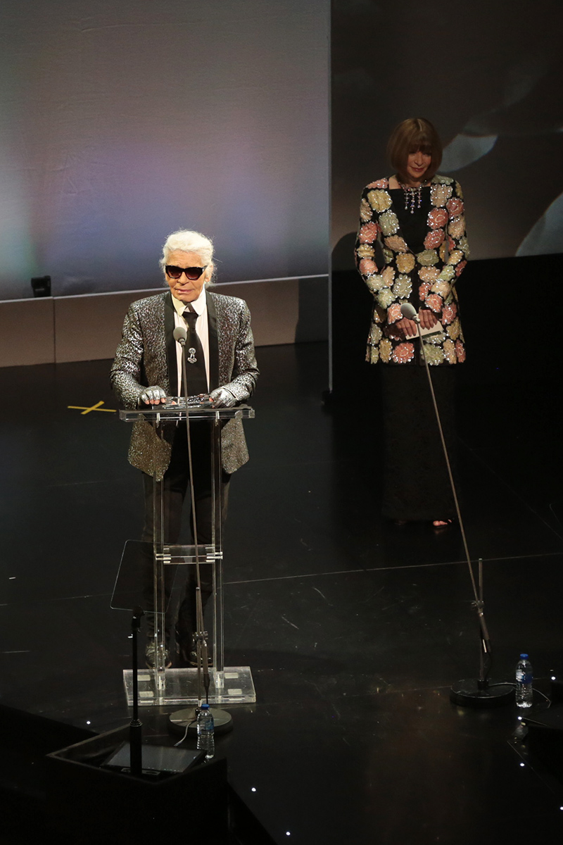 Outstanding Achievement Award: Karl Lagerfeld will receive the Outstanding Achievement Award at the 2015 British Fashion Awards for his unrivalled contribution to the fashion industry. WINNER: Karl Lagerfeld Presented by Anna Wintour OBE